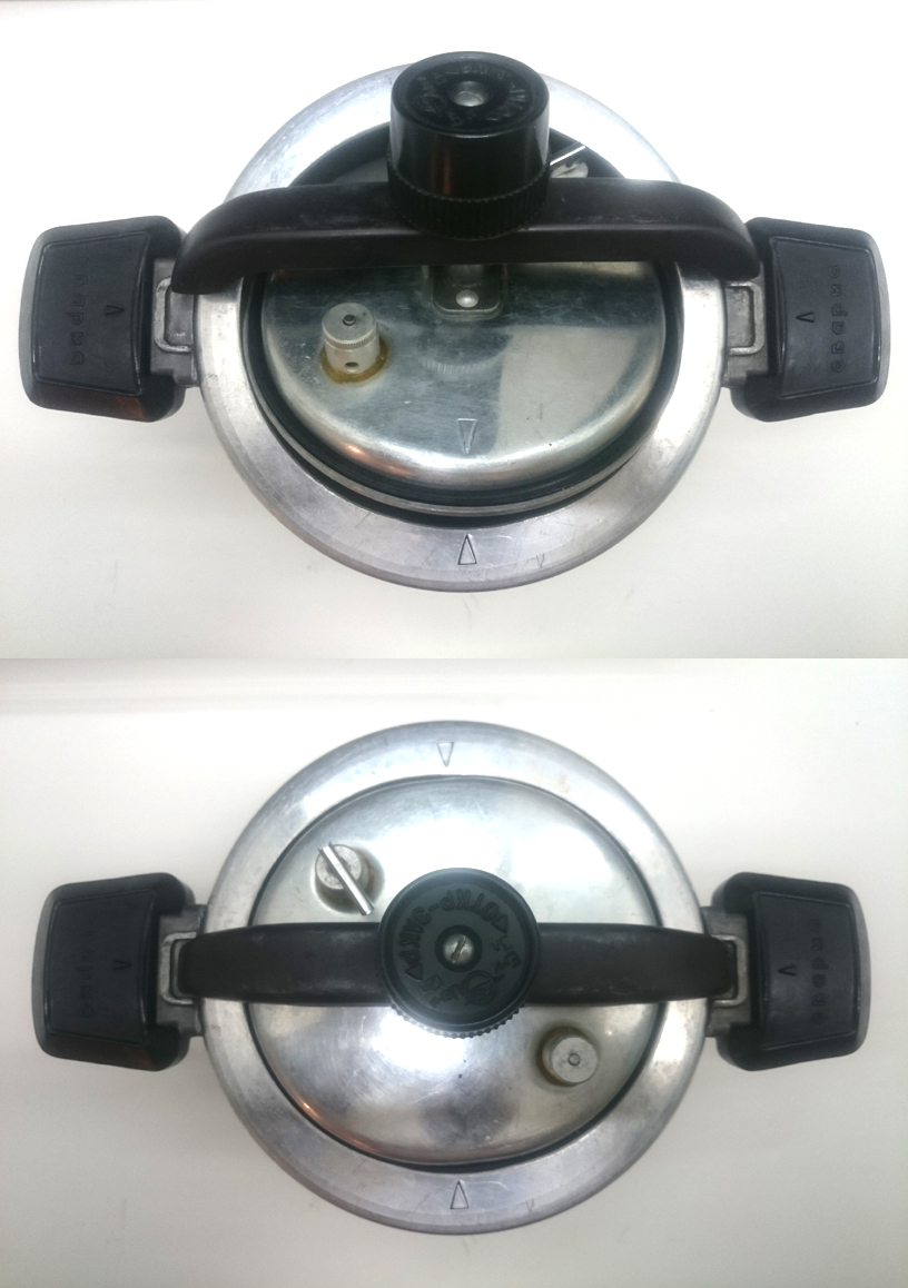 Russian "Svarma" pressure cooker with self-locking oval lid